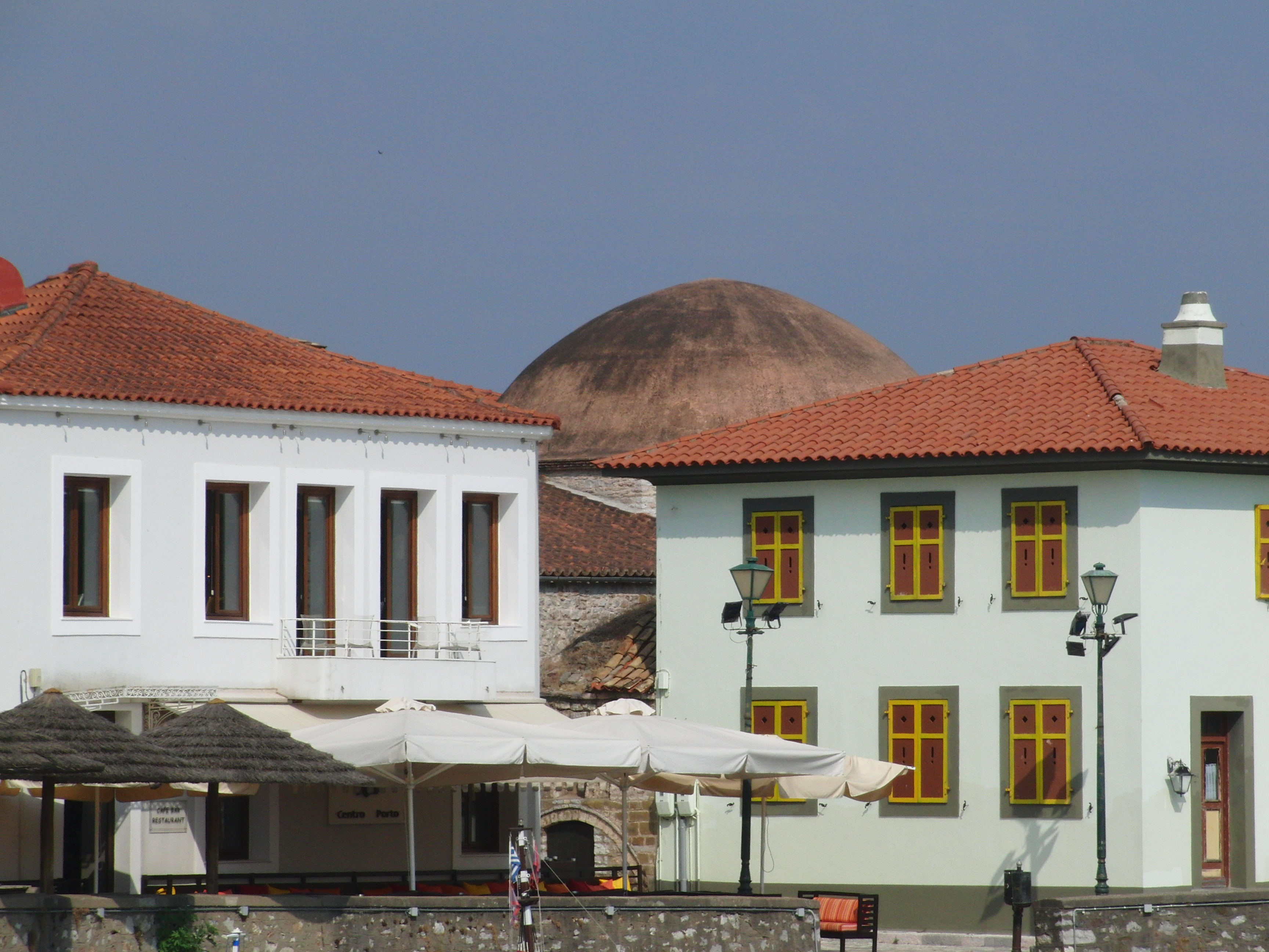 Naupactus